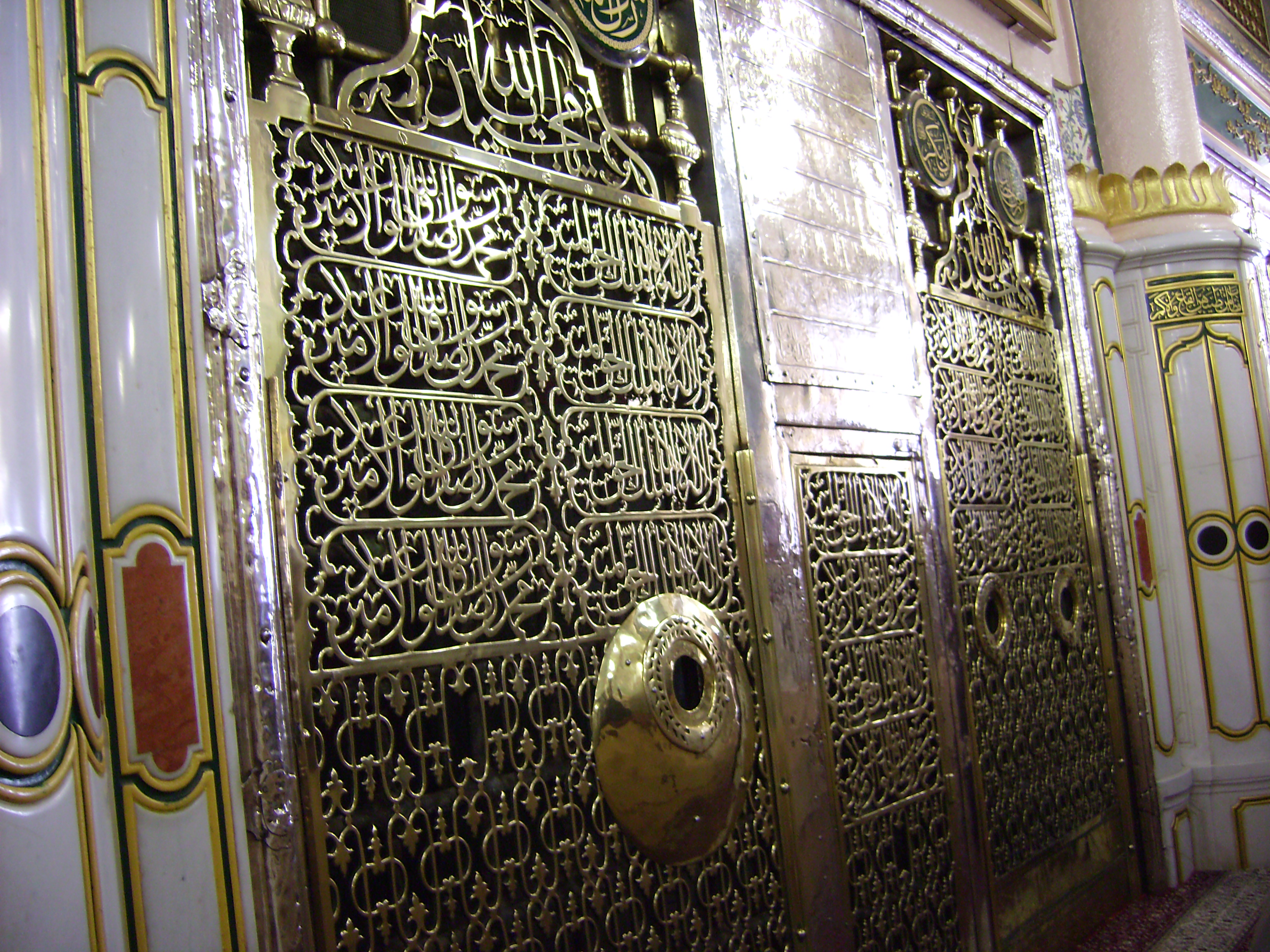 Al-Masjed Al-Nabawi, Hujrah